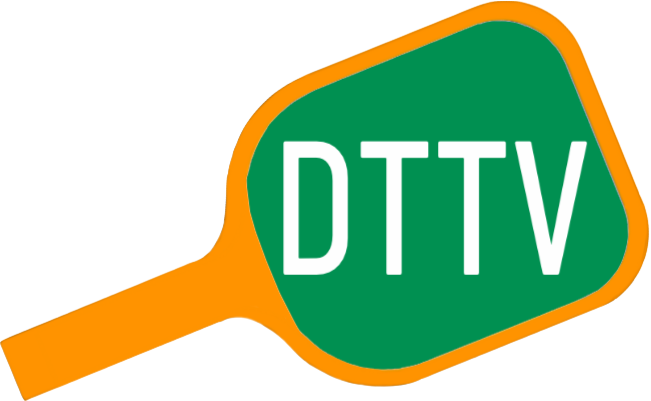 Logo of the Deutscher Tischtennis-Verband der DDR